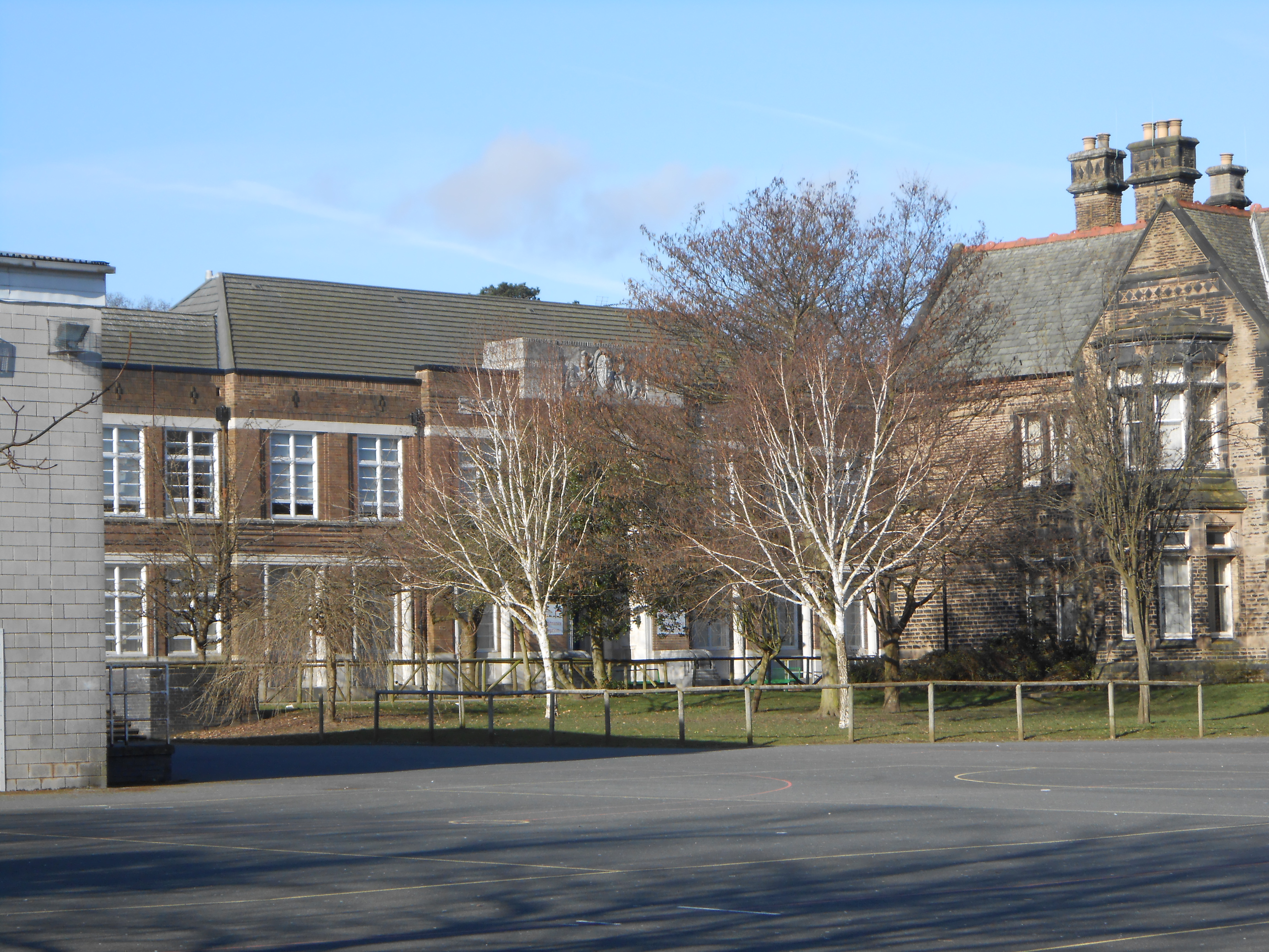 Photo taken at Rock Ferry High School, Birkenhead, Merseyside, England. The school closed in 2011.